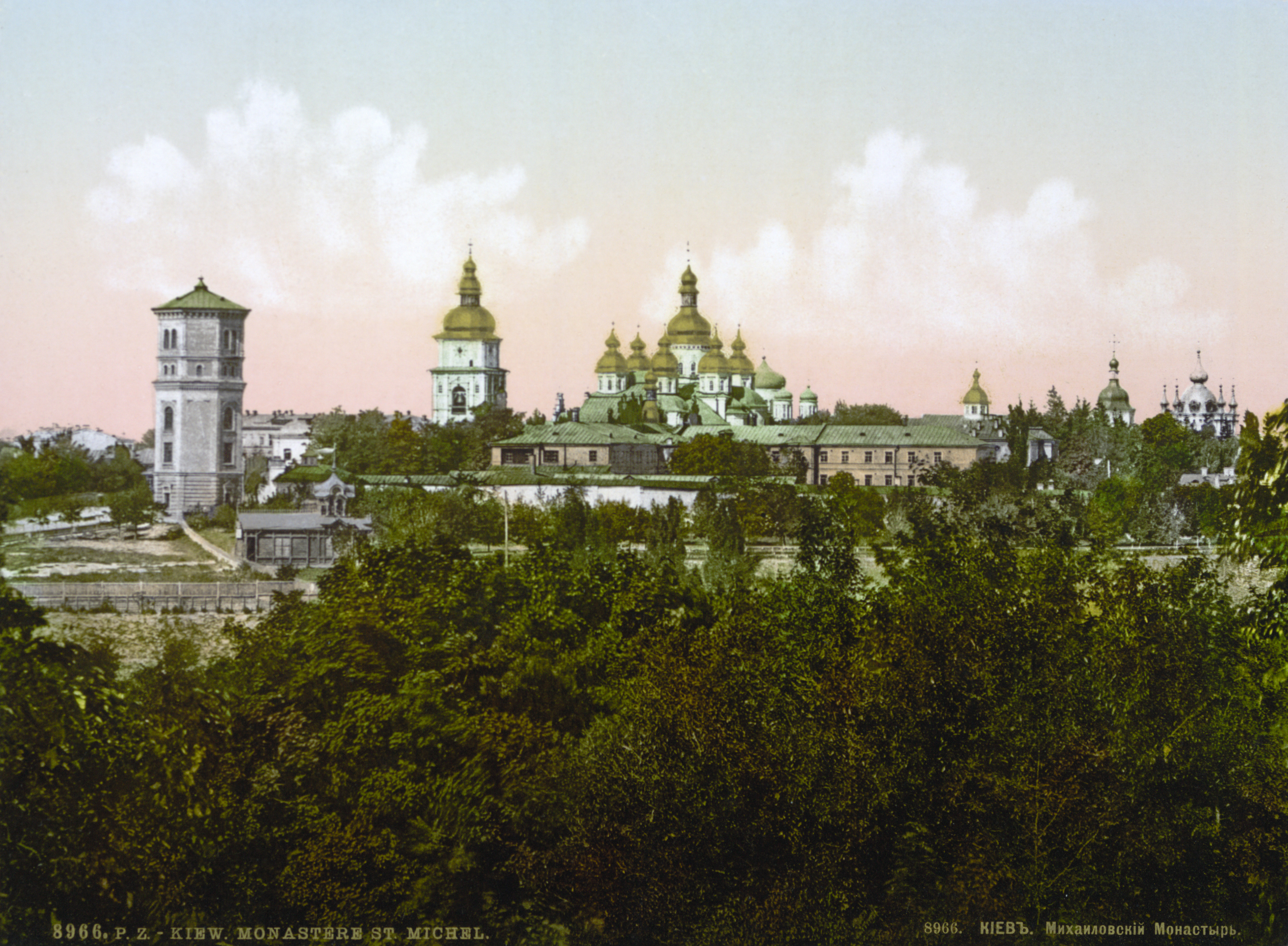 Old photochrome prints showing the St. Michael's monastery in Kiev, Russian Empire (now Ukraine). Print no. "8967"